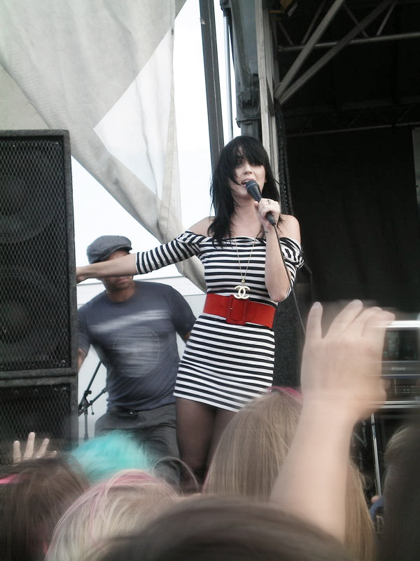 Katy Perry at The Warped Tour '08